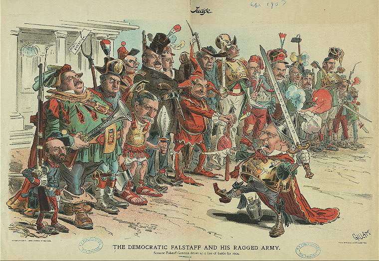 Arthur Pue Gorman 1902